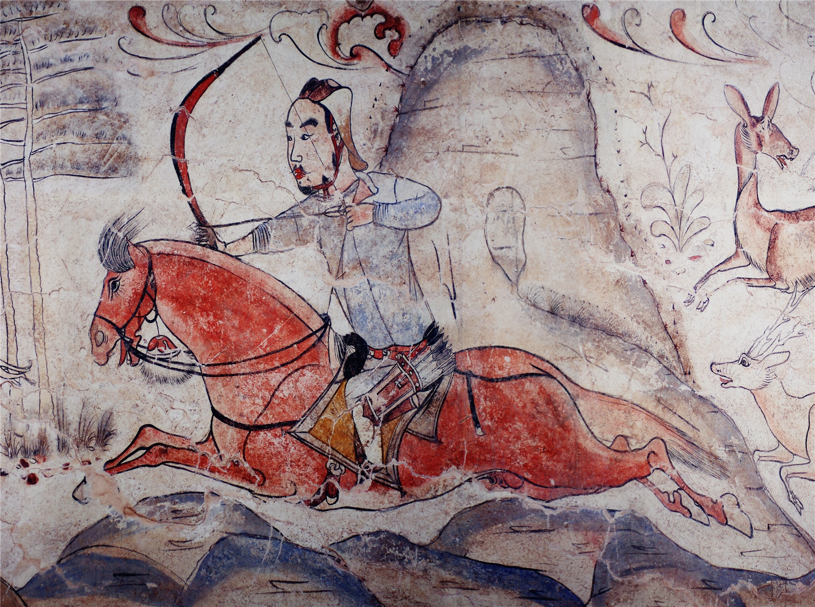 Mural from a tomb of Northern Qi Dynasty in Jiuyuangang, Xinzhou